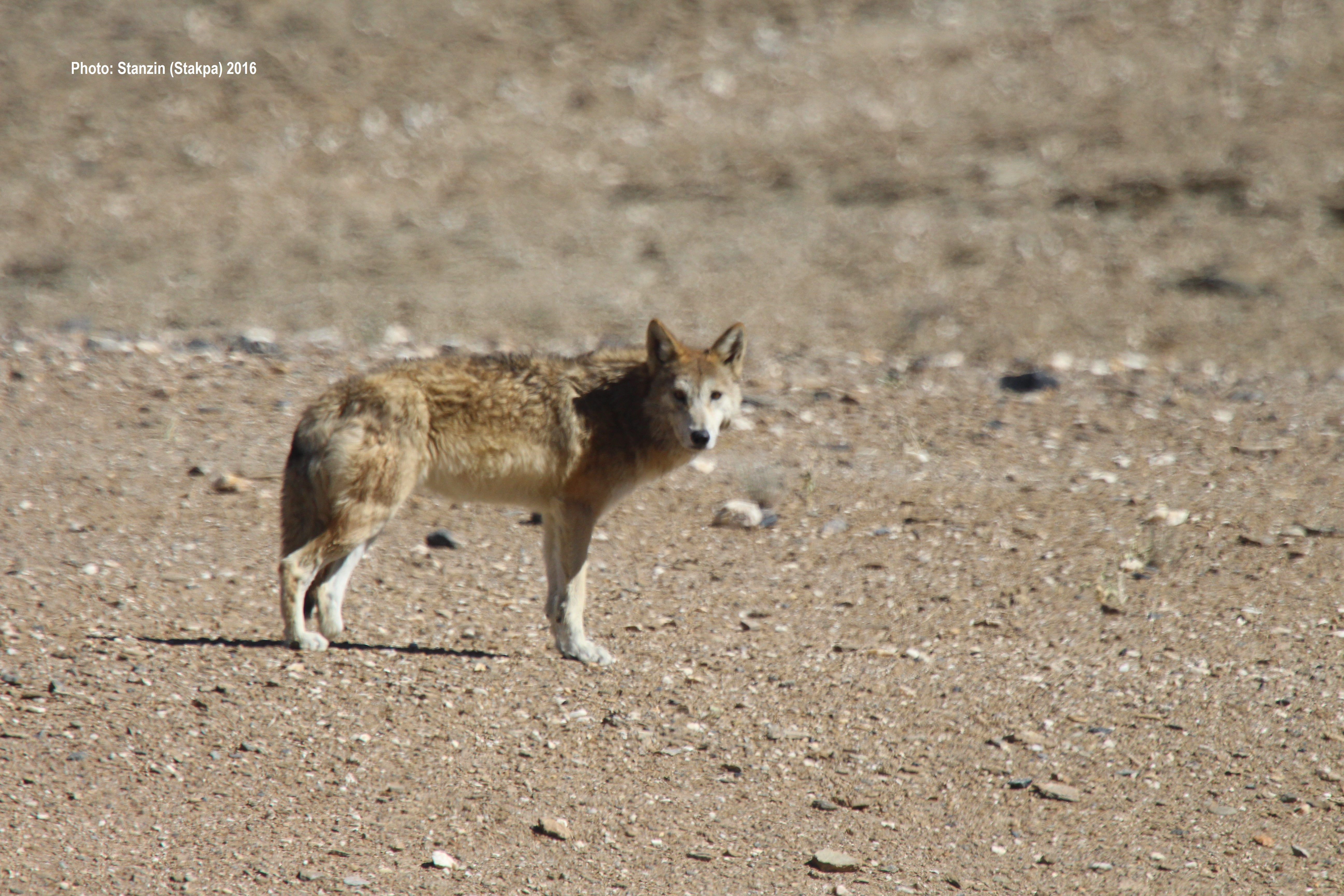 Tibetan wolf in Changthang